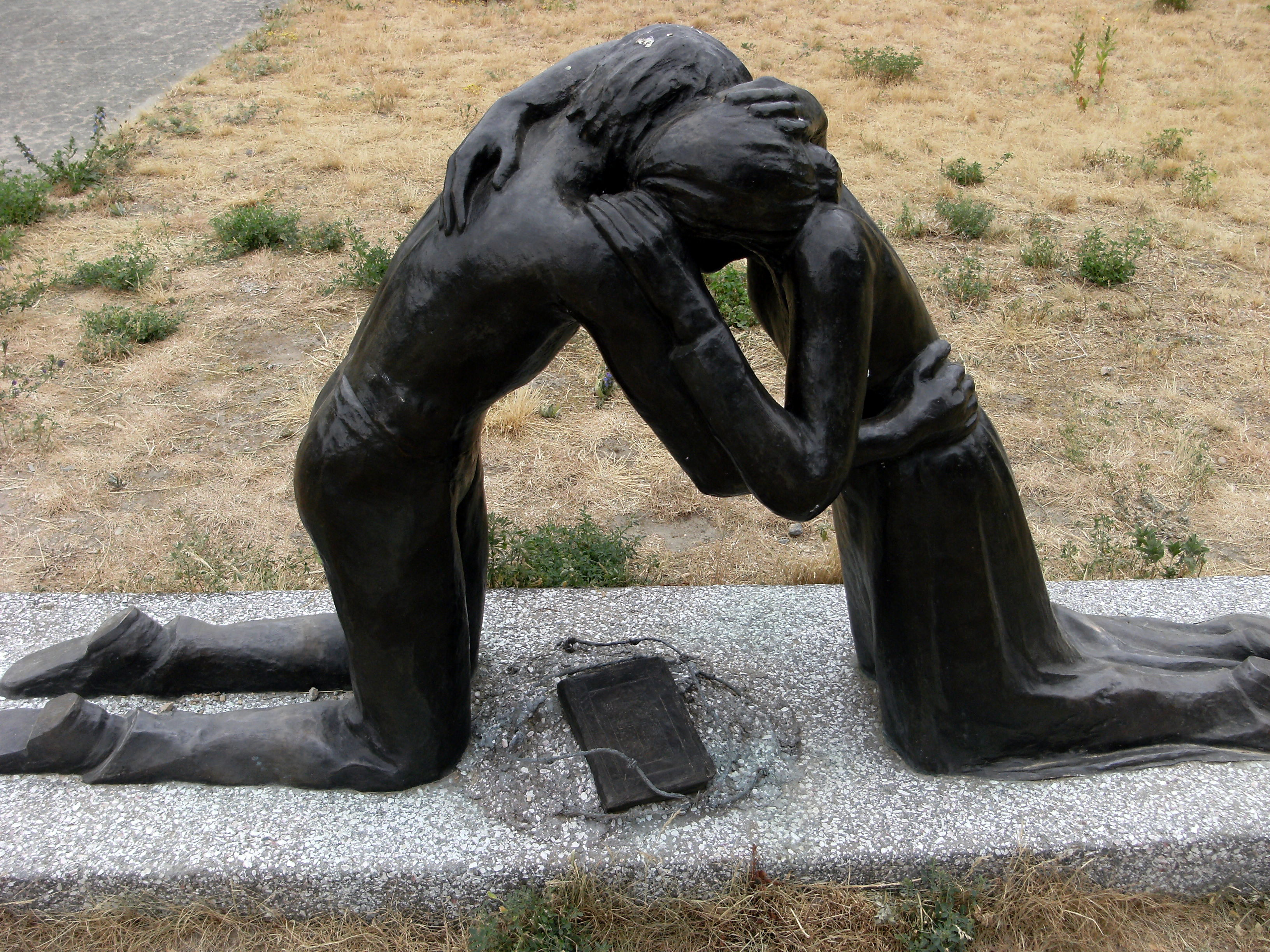 Berlin in june 2008.